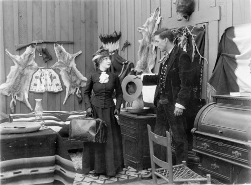 Rhea Mitchell in the film Mr. 'Silent' Haskins (1915).